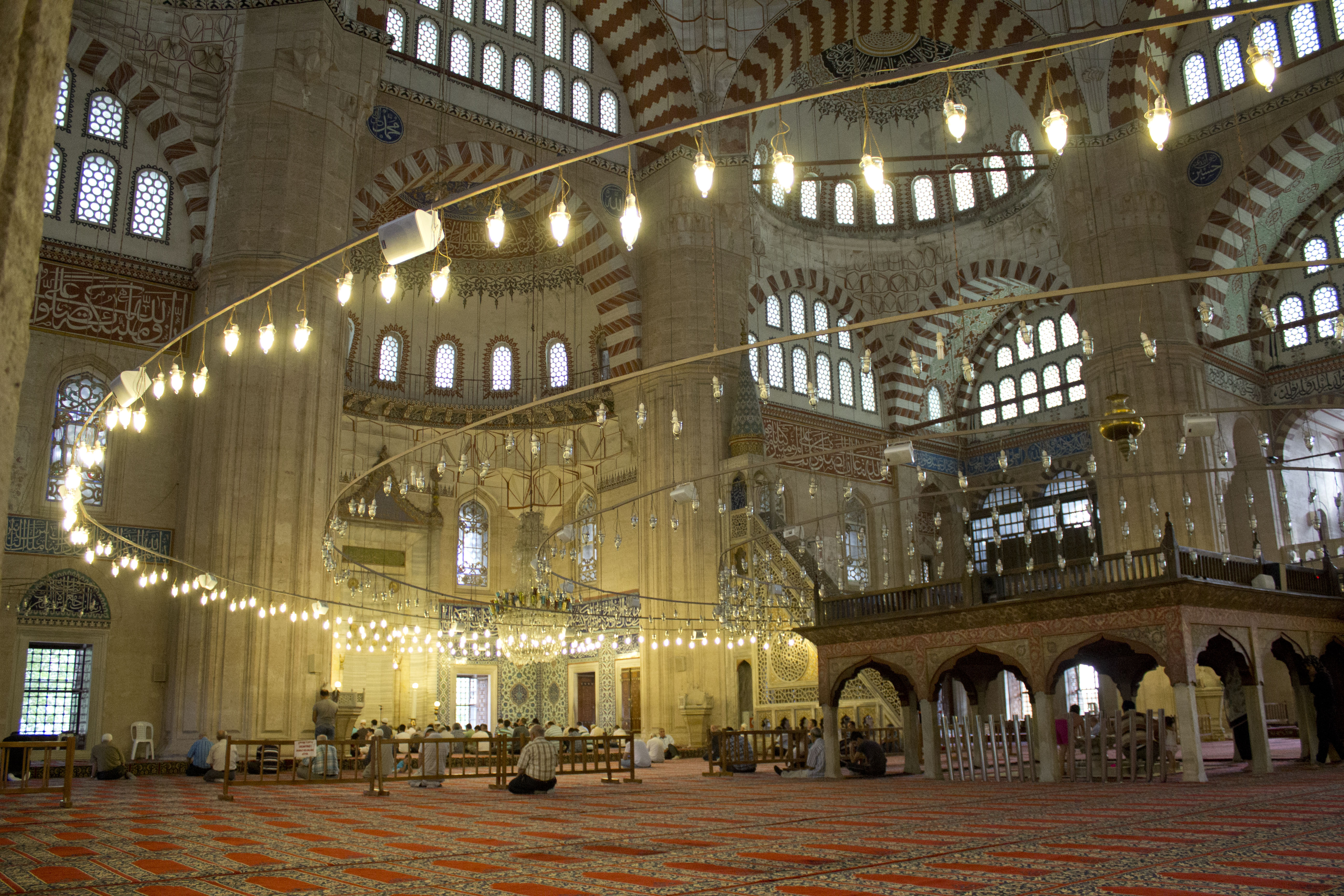 View of Selimiye mosque in Edirne, Turkey